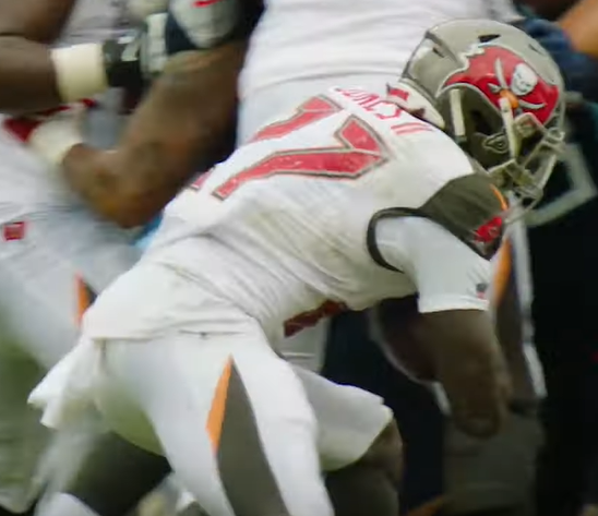 Ronald Jones 2019. Image from video Titans Mic'd Up vs. Bucs (Week 8) | Sounds of the Gamee, ~ 02:58.